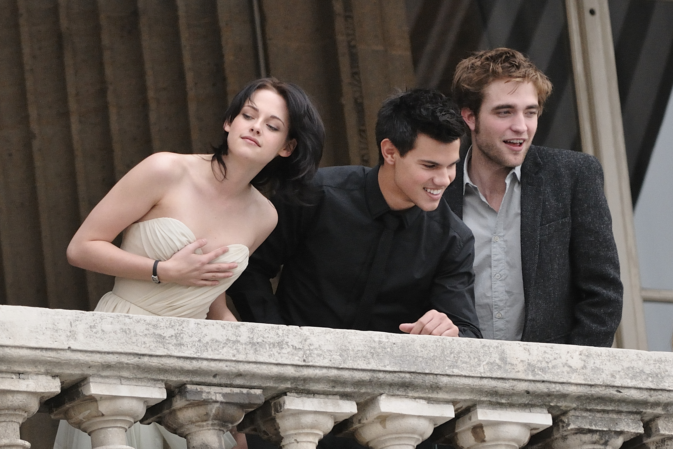 Actress Kristen Stewart, actor Taylor Lautner and actor Robert Pattinson (right) attending the Twilight Saga Film New Moon (Twilight Chapitre 2 Tentation) Photocall at the Crillon Hotel in Paris, France on November 10, 2009.